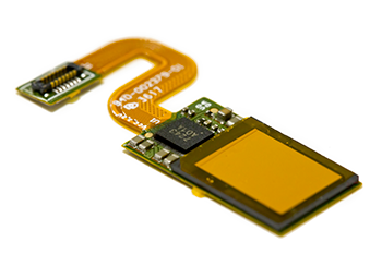 Fingerprint scanner by Synaptics